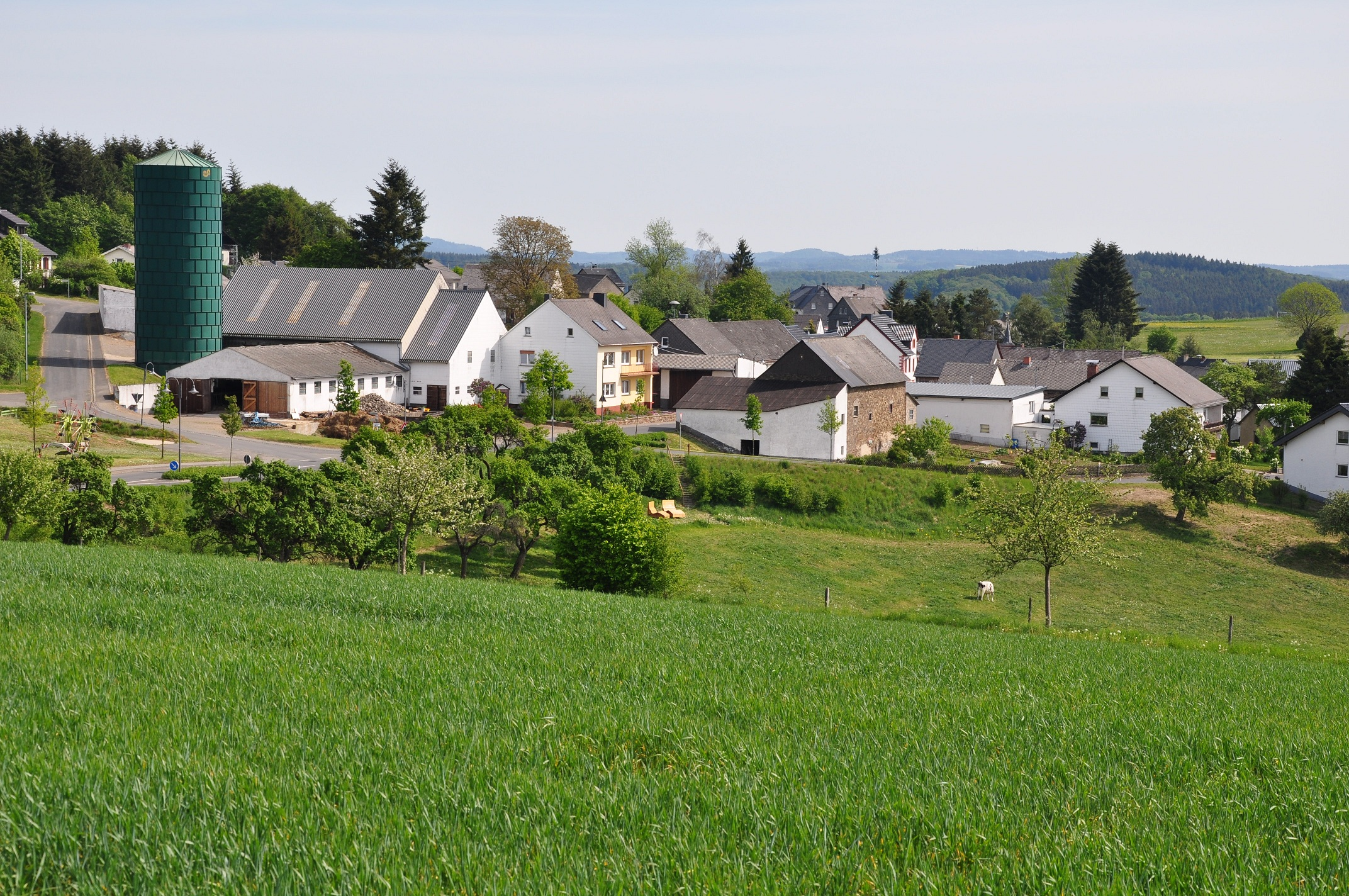 The village of Sassen (Kelberg Municipality, District Vulkaneifel, Rhineland-Palatinate, Germany).